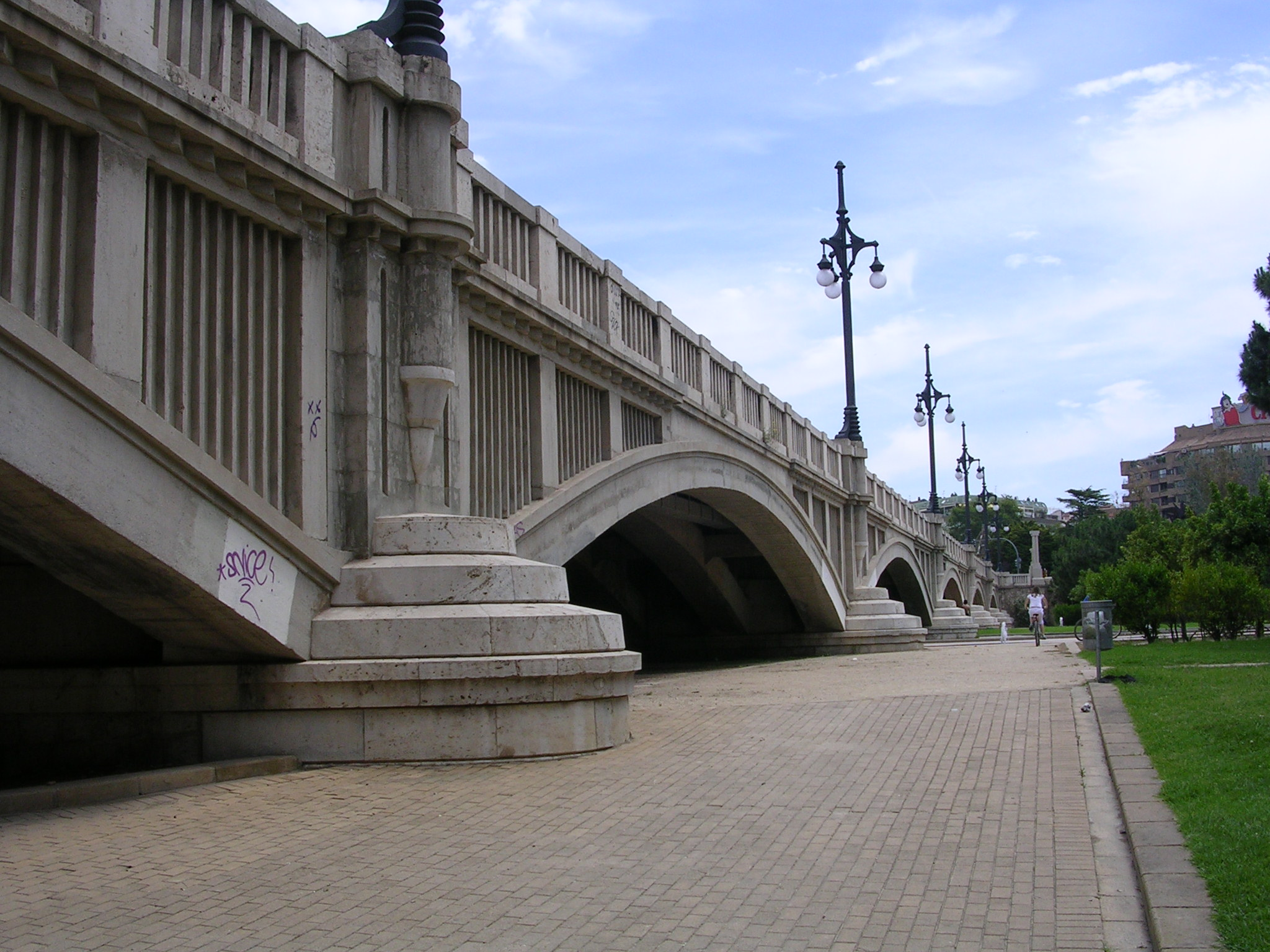 Aragon Bridge, Valencia, Spain